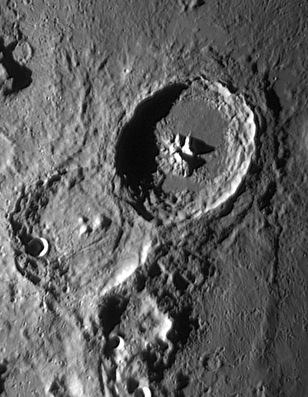 Lunar craters Theophilus & Cyrillus Imaged 2013 SEP 24, 10:08 UT The Moon returns to the evening skies this week, wending her way through the dim autumnal constellations as she waxes to First Quarter phase, which occurs on the 10th at 12:57 am Eastern Standard Time. Look for Luna’s crescent above the dazzling disc of Venus in the southwestern sky at dusk on the 6th. For the rest of the week she’s pretty much on her own. With little competition from other bright attractions this will be another good week to get to know the Moon’s many interesting attractions. Virtually any optical aid will transform her from a silver-flecked light in the sky to a place with stark, sun-drenched landforms. On the evening of the 8th point your telescope at the Moon to see one of my favorite lunar landmarks, the prominent "double crater" pair of Theophilus and Cyrillus. They will be very prominent, about halfway between the cusps along the terminator line. Theophilus is the fresher of the two craters, with much of its ejecta blanket filling the floor of Cyrillus. Theophilus is about 100 kilometers (61 miles) in diameter and 3.3 kilometers (11,000 feet) deep. Its prominent central peak rises nearly 1.5 kilometers (one mile) above its floor. As impressive as this crater may appear, looks can be deceiving. If you were able to stand on the floor of the crater about halfway between the terraced walls and central peak, you would think you were on a vast, flat plain. Since the Moon is a much smaller sphere than the Earth, your apparent horizon is much closer, on the order of 1.5 kilometers (one mile), and the curvature of the surface drops away very quickly.